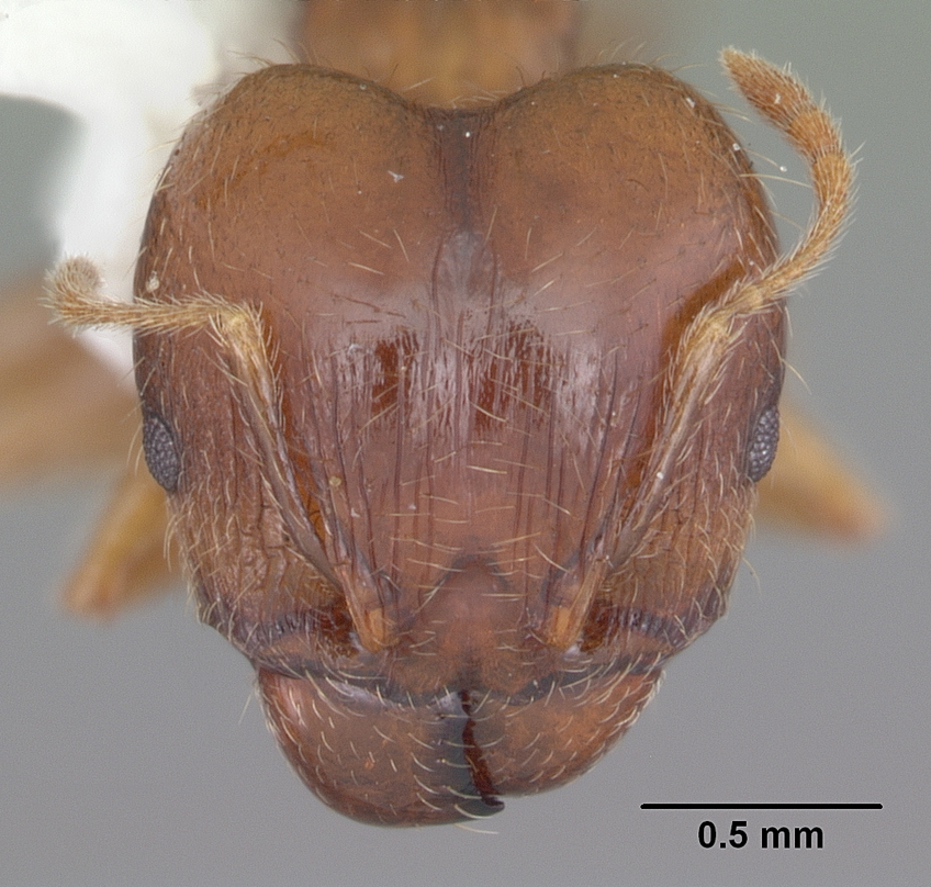 Head view of ant Pheidole megacephala specimen casent0104408.